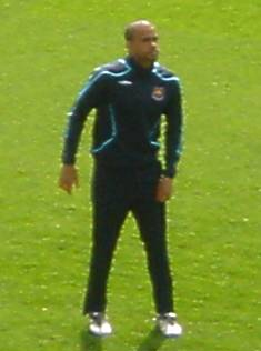 Kieron Dyer warming up before a rare appearance for West Ham, against Aston Villa at Villa Park.